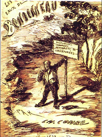 Cover print of the album Les eaux de Bondonneau, illustrated by Charles-François Combe (Paris, 1858).